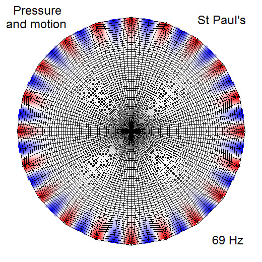 Map of a whispering gallery wave in an enclosed cylinder with of air of the same diameter as the whispering gallery at St Paul's Cathedral. Red and blue represent higher and lower air pressures, respectively, and the distortion in the grid lines represents the air particle displacements. The pitch of this wave is 69 Hz. Image created by the Applied Solid State Physics Laboratory, Division of Applied Physics, Faculty of Engineering, Hokkaido University Sapporo, Japan. Jan. 31, 2012